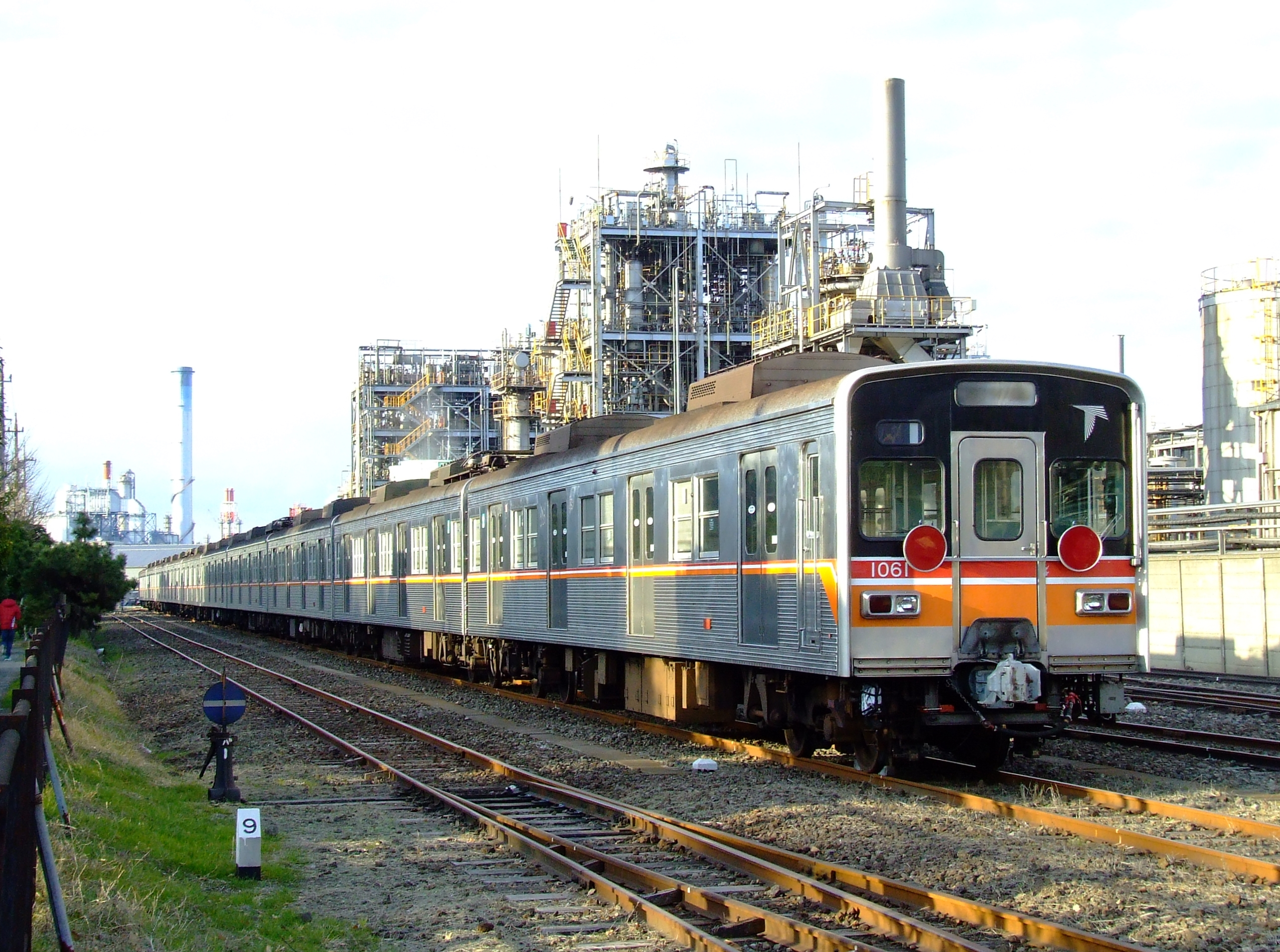 Toyo Rapid 1000 series EMU set 1061 at Kanagawa Rinkai Railway Chidoricho Yard awaiting shipping to Indonesia